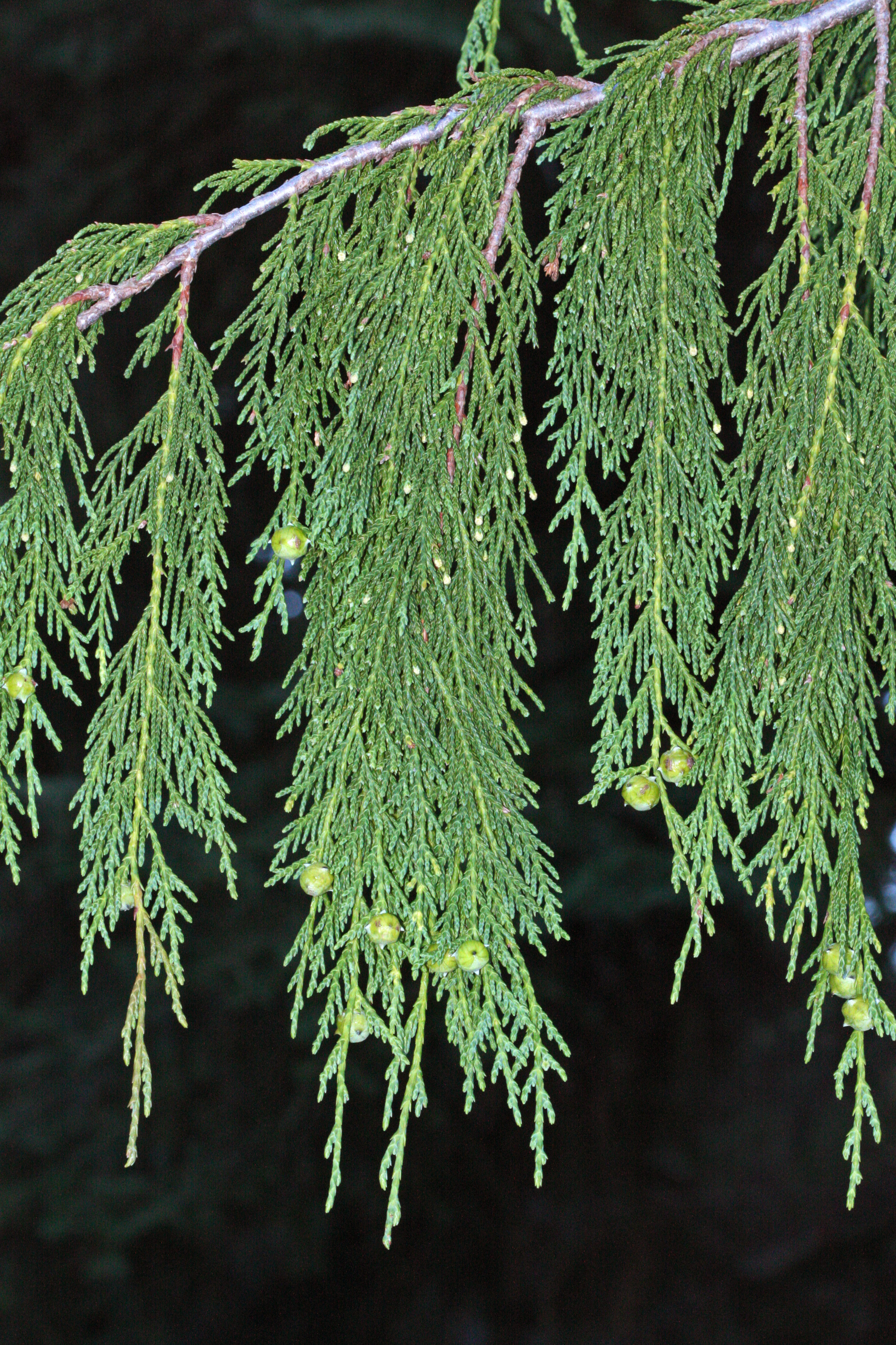 Nootka Cypress foliage and cones